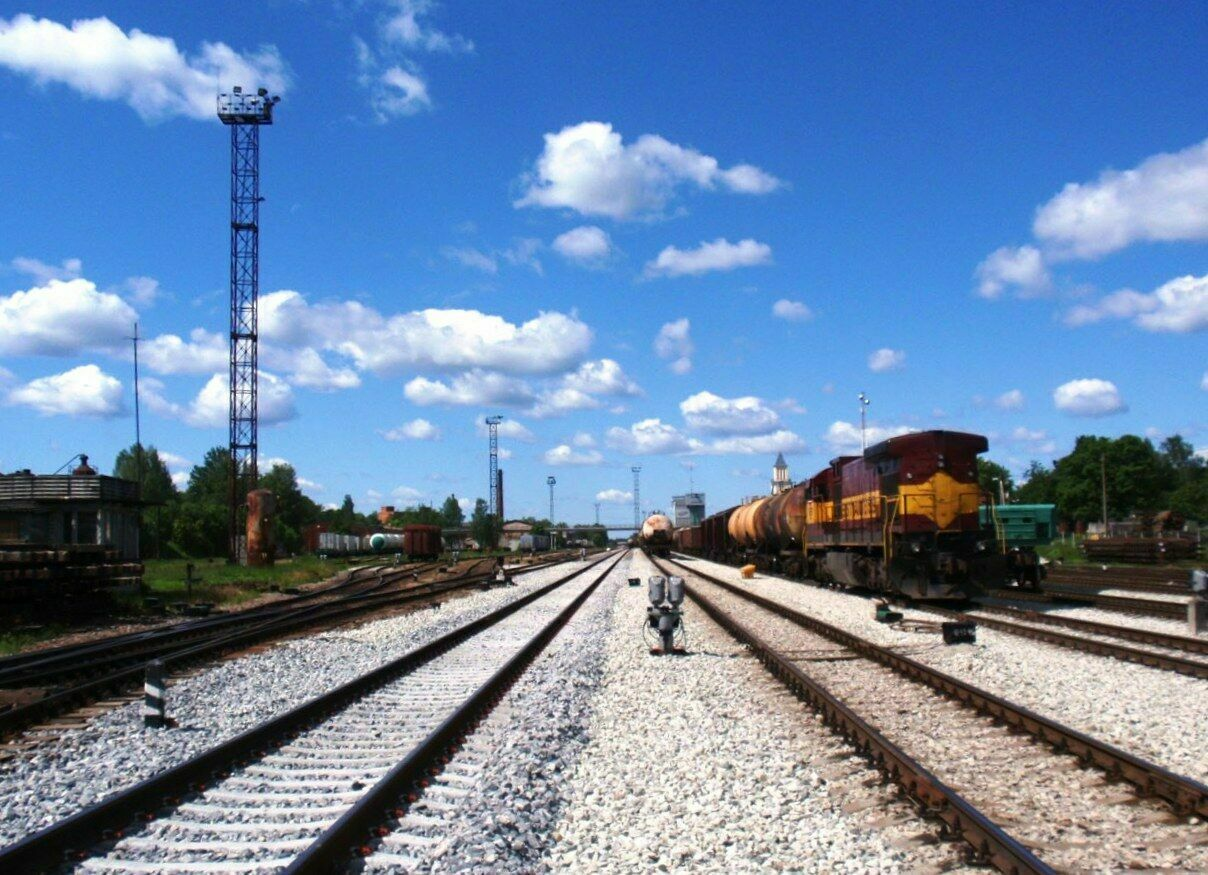 Valga railway station